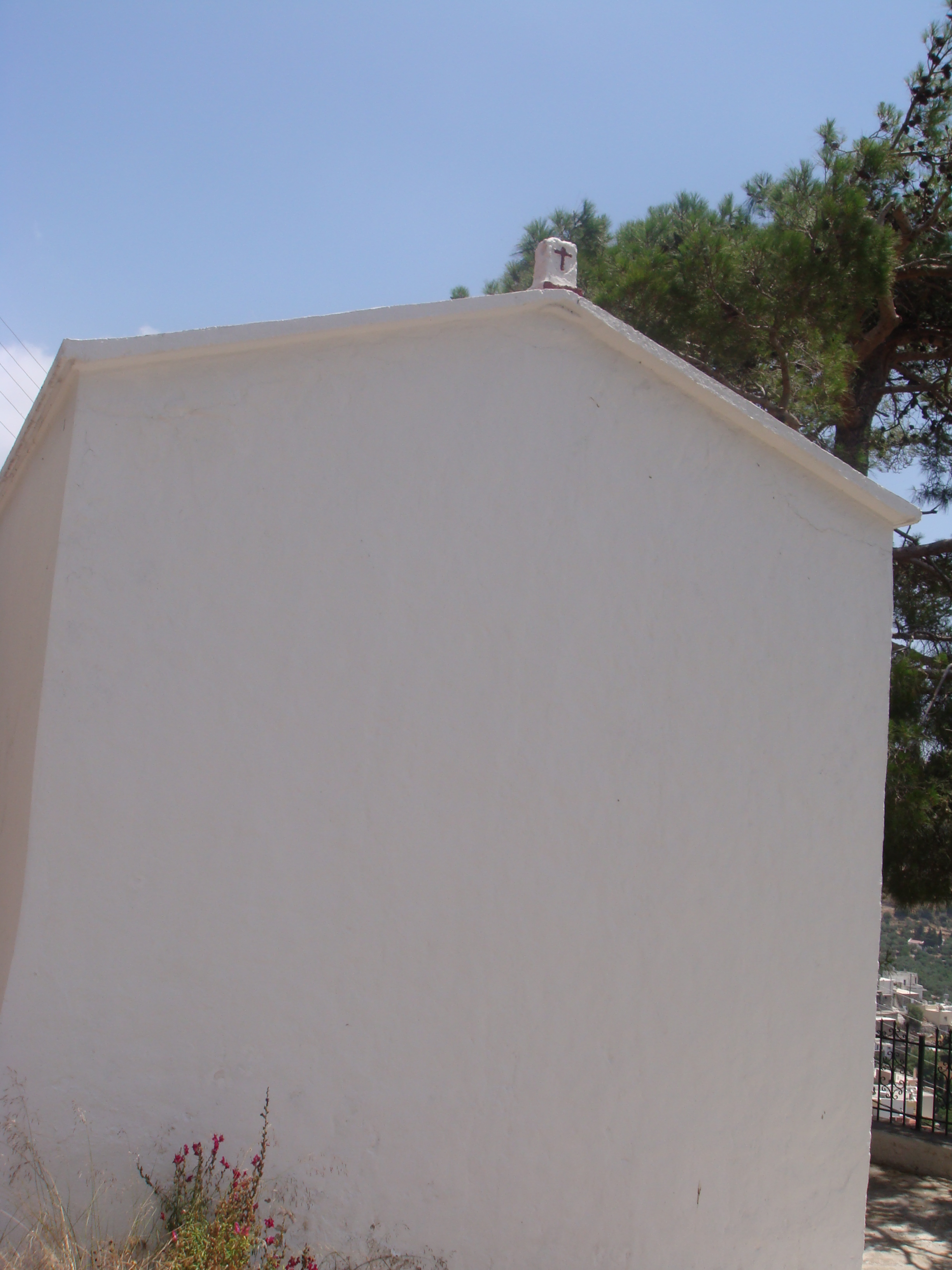 The church of Agia Pelagia, dated back to 14th century, in Ano Viannos.